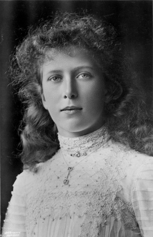 Mary, Princess Royal, later Countess of Harewood (1897-1965)